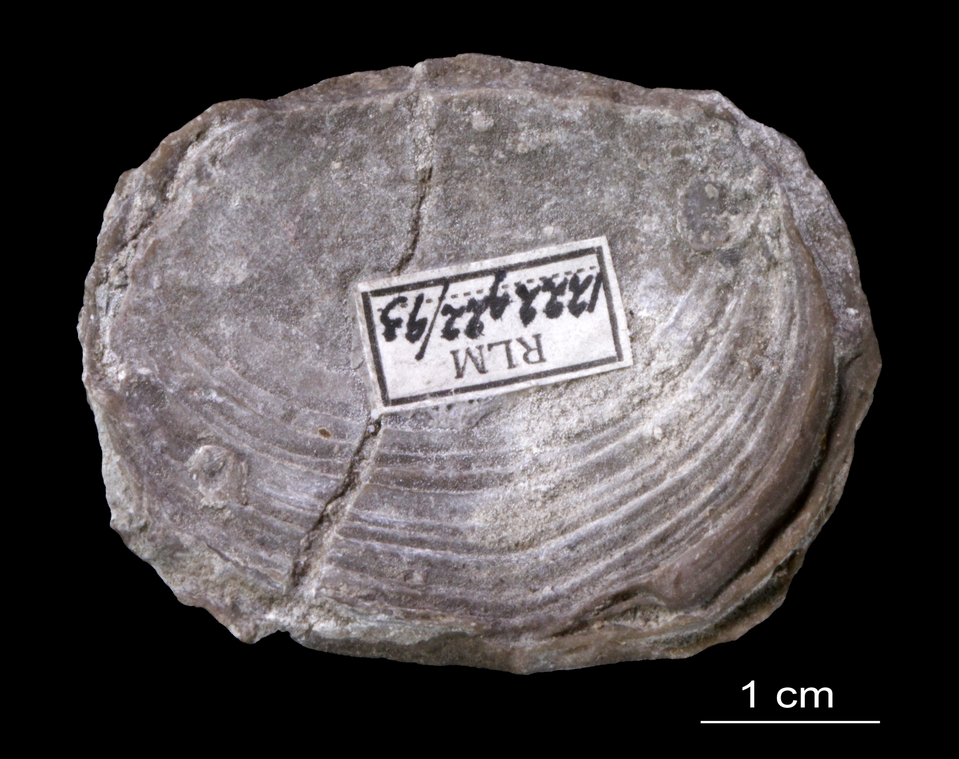 Dinobolus davidsoni. More info about this file and about this specimen at